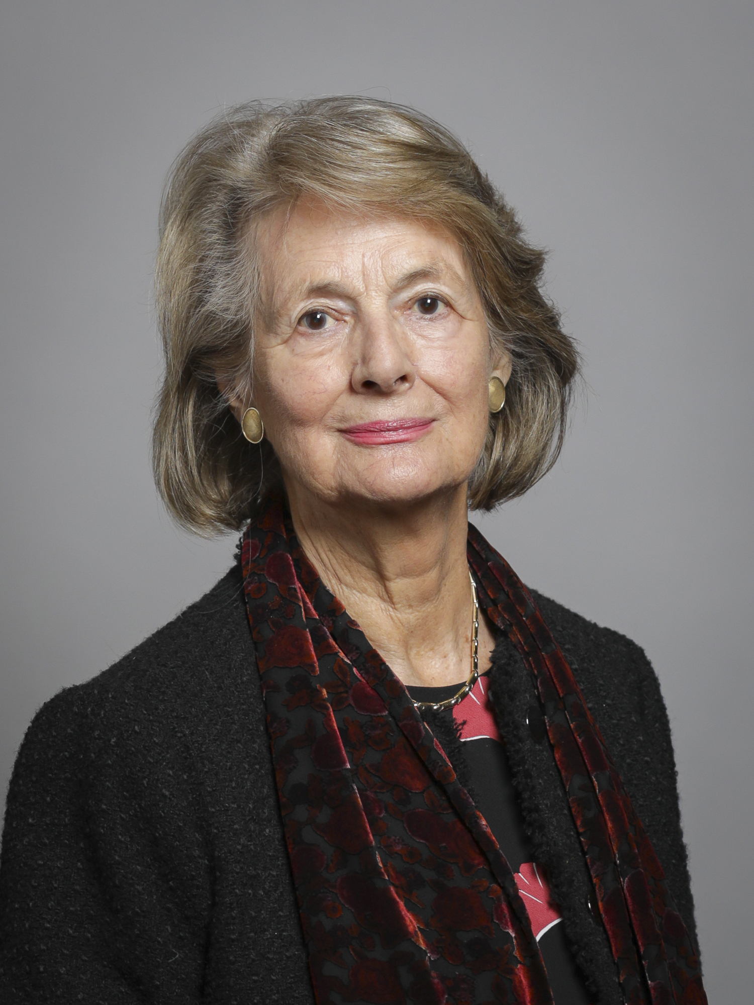 Official portrait of Baroness Jay of Paddington 3×4 portrait of Baroness Jay of Paddington